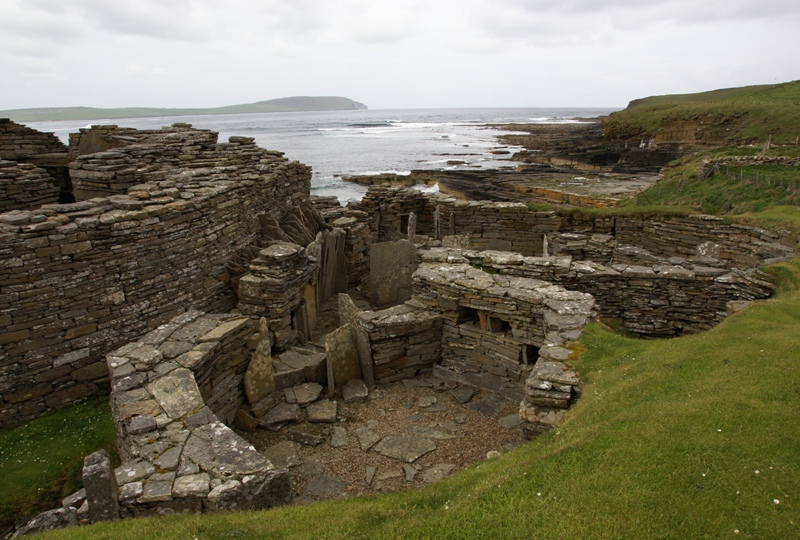 Midhowe Broch, Rousay, Orkney, Scotland - outer buildings